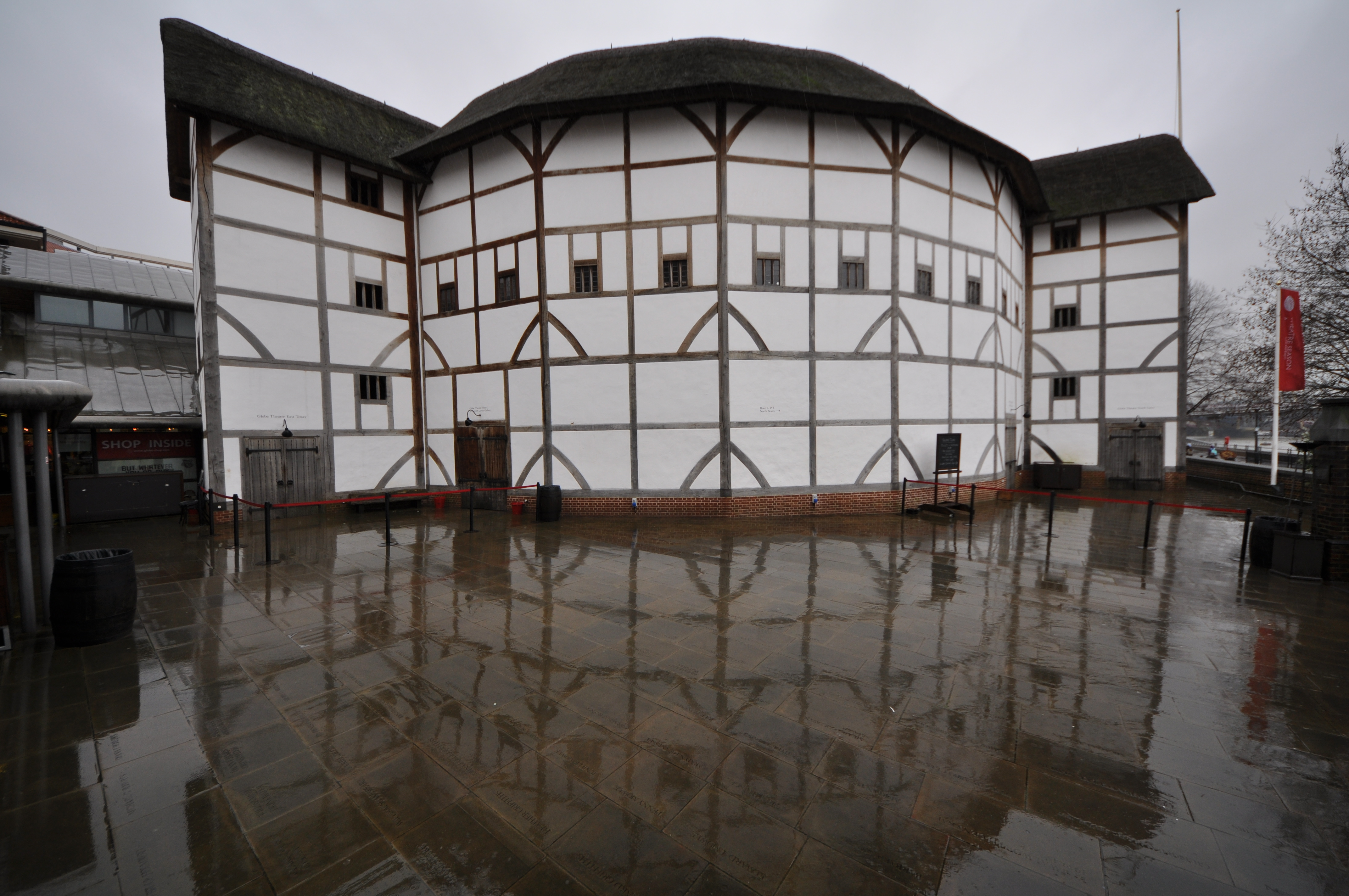 Globe Theater in Southwark, reconstruction from 1997 of the famuos theater which William Shakespeare once worked in from 1599.